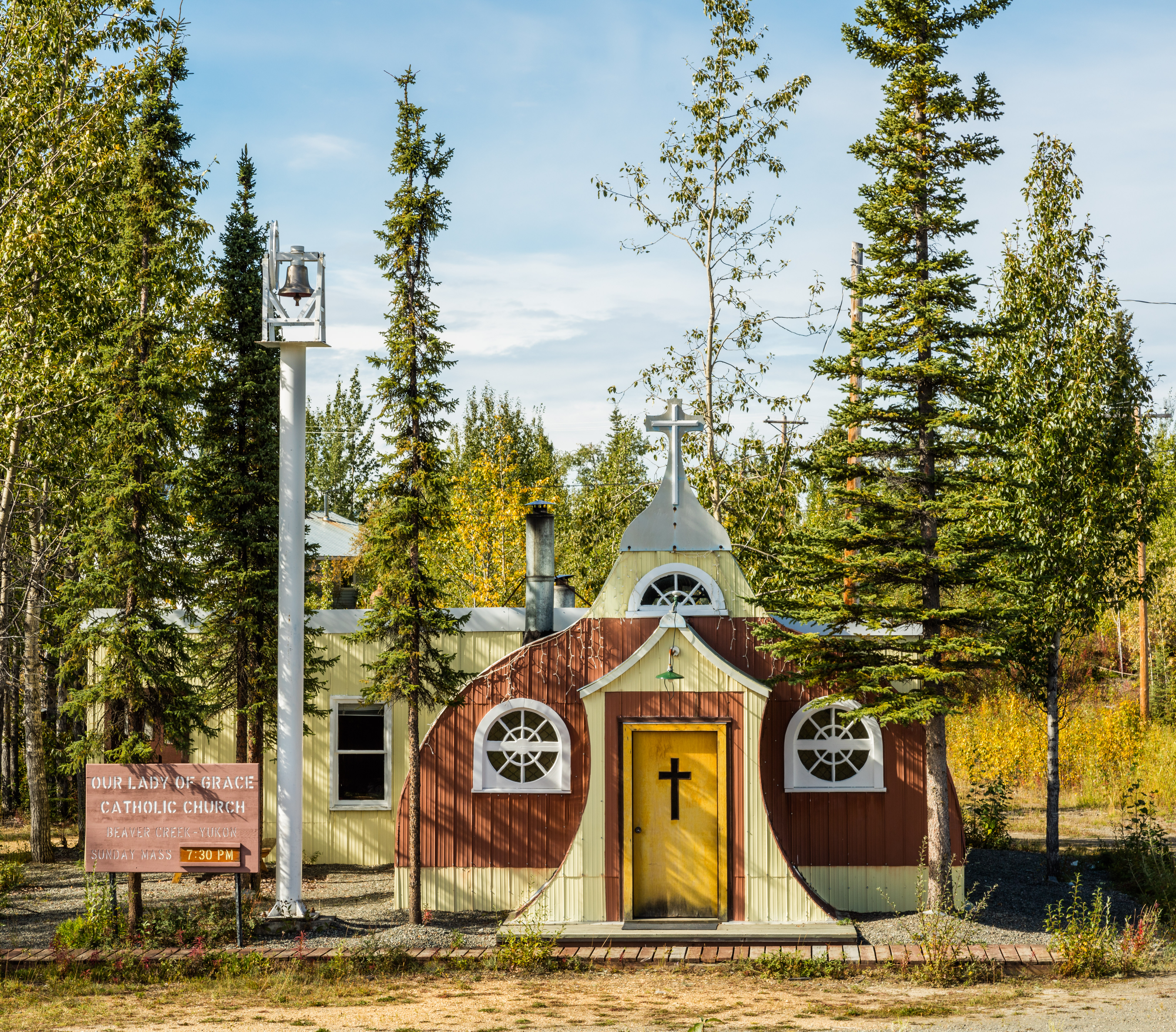 Our Lady of Grace church, Beaver Creek, Yukon, Canada